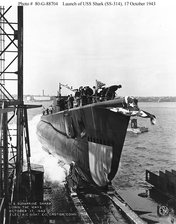 (copyright expired, official US Navy photo) USS Shark being launched at Electric Boat Company